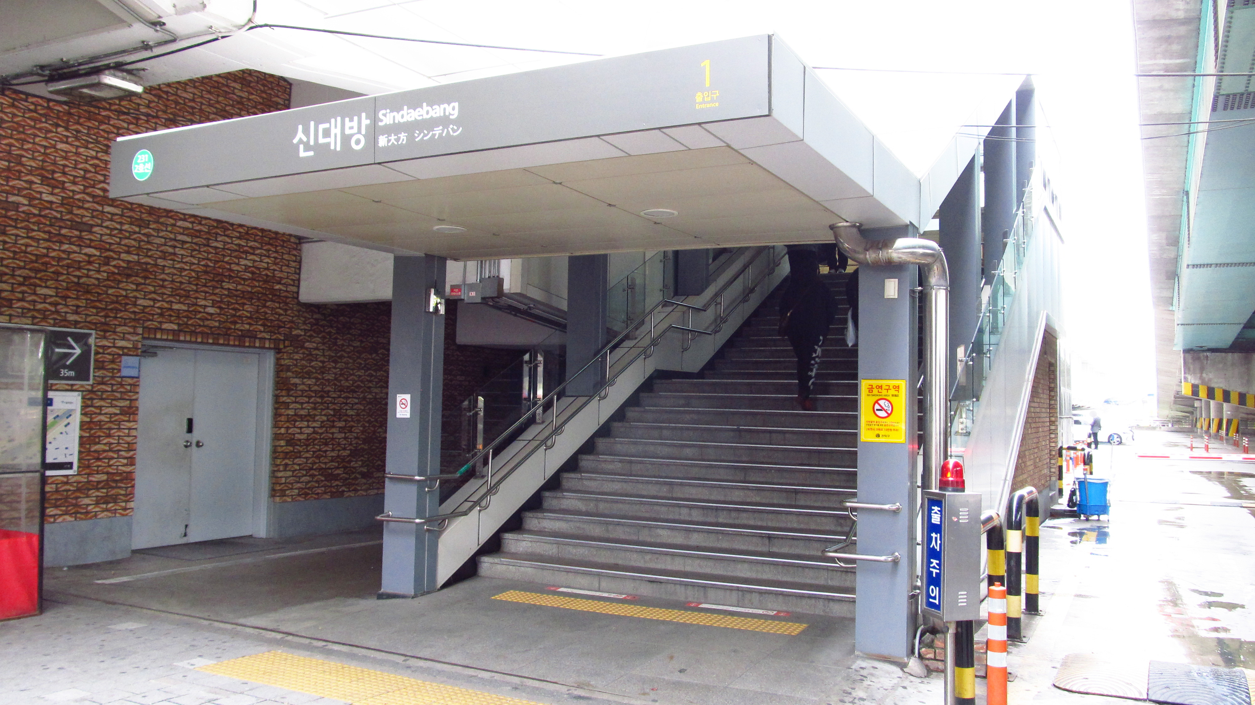 The no.1 entrance to Sindaebang Station on the Seoul Metro Line 2 in Gwanak-gu, Seoul, Republic of Korea(South Korea)